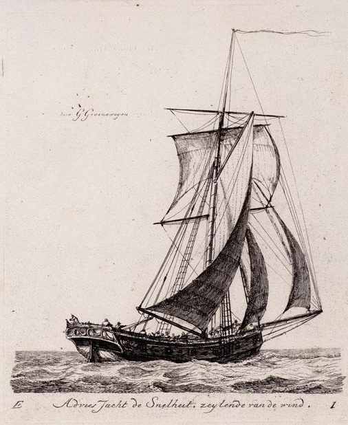 Dutch cutter Snelheid, captain Dooitze Eelkes Hinxt. Made by Gerrit Groenewegen c. 1790.